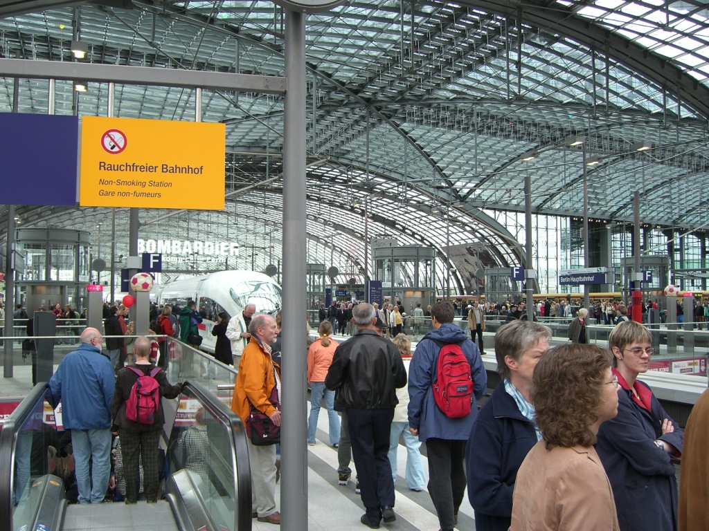 Top floor of the Berlin "Hauptbahnhof" (central station)